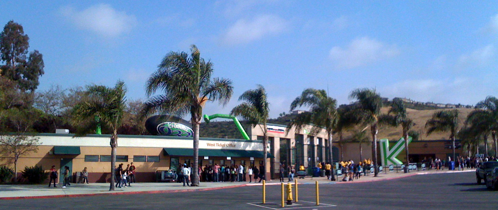 Channel 93.3 Summer Kick-Off Concert